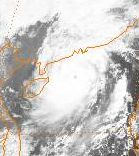 National Climatic Data Center's GIBBS satellite archive ftp://eclipse.ncdc.noaa.gov/pub/isccp/b1/.D2790P/images/1983/286/Img-1983-10-13-03-GMS-2-VS.jpg